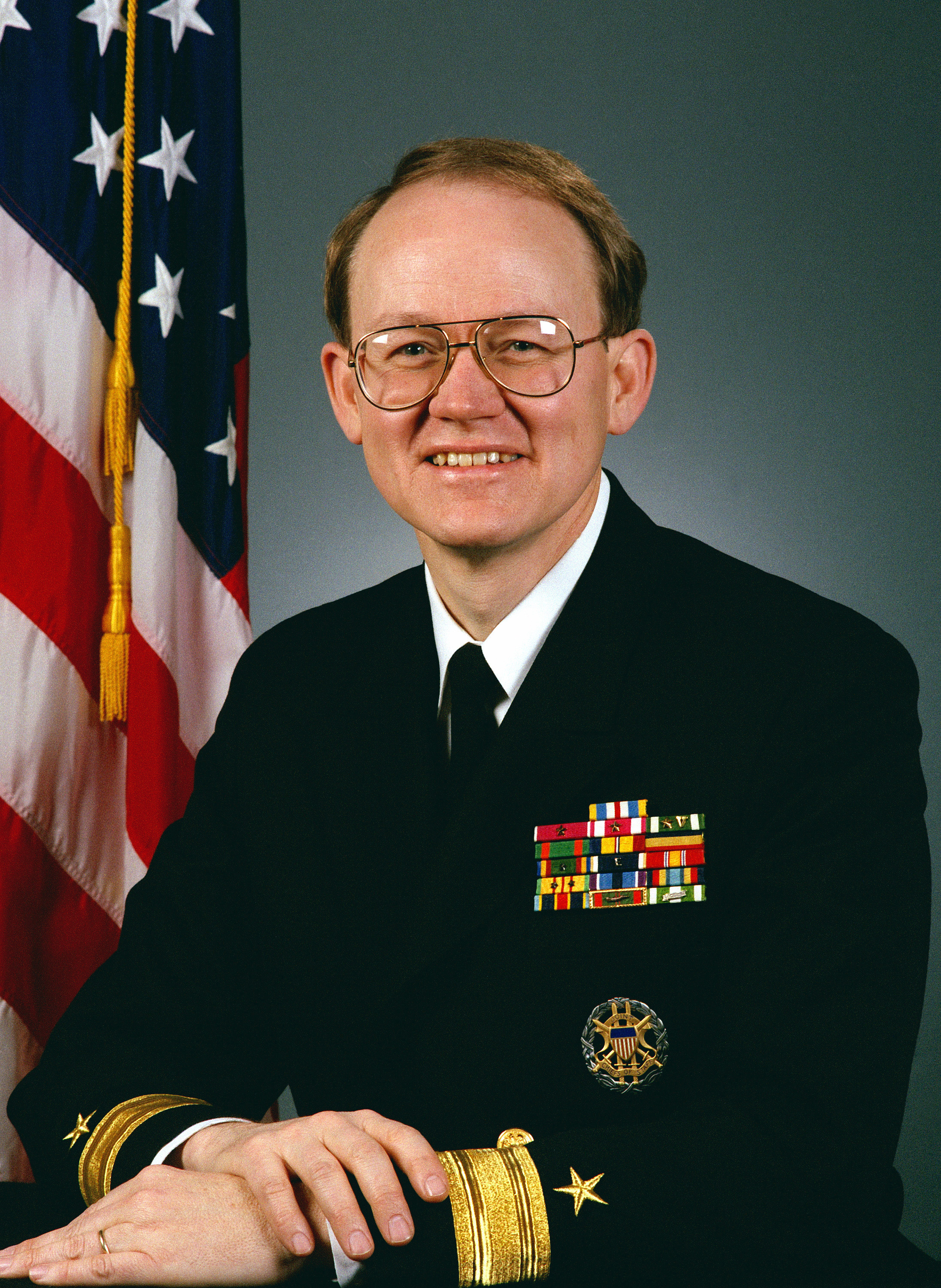 Rear Admiral Mike McConnell, former director of the NSA and Director of National Intelligence.